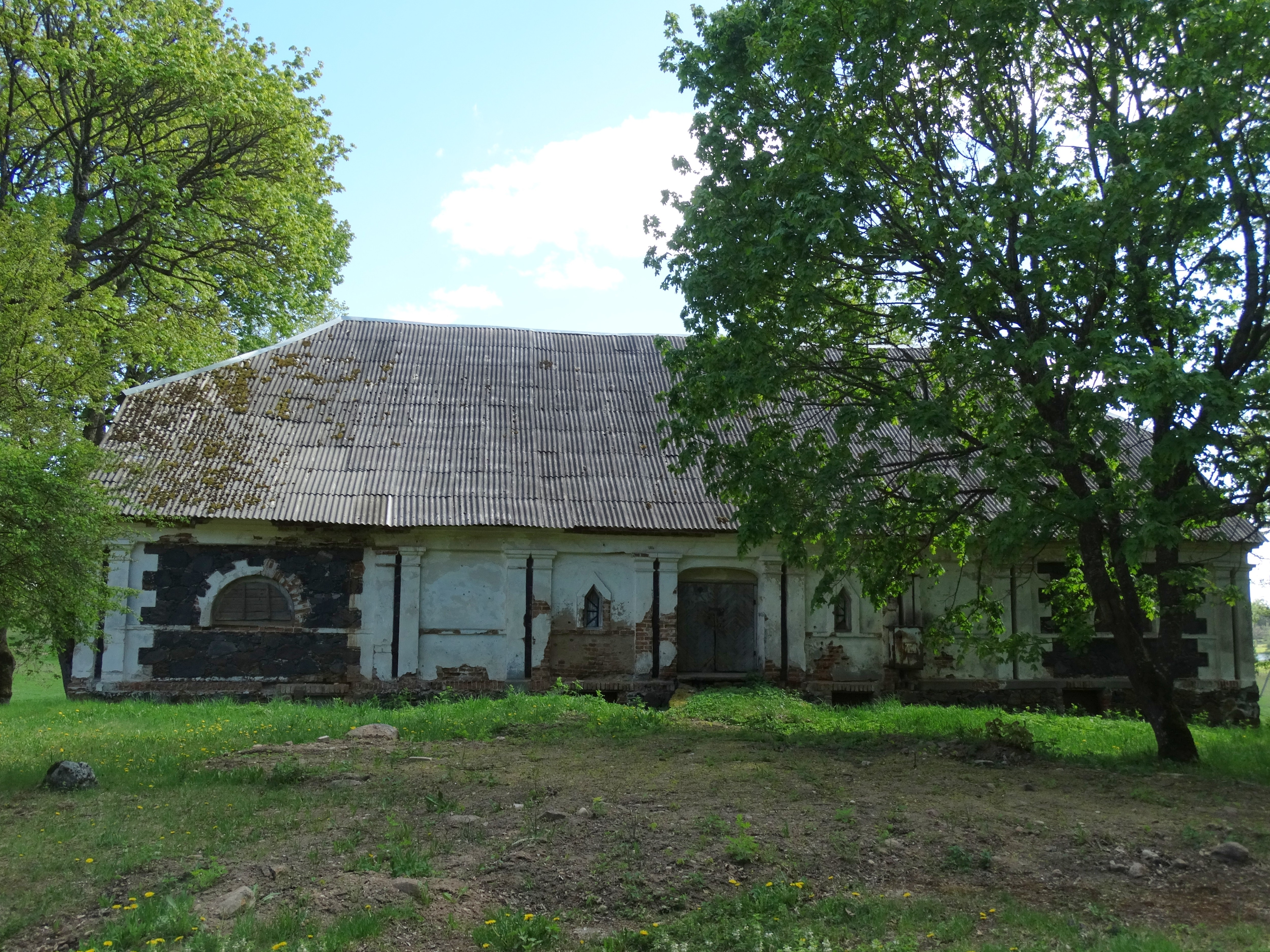 Former manor buildings, Grinkiškis, Radviliškis district, Lithuania